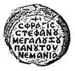 The seal of Grand Zupan Stefan Nemanja, one of only two verified surviving specimens, acquired in 1978 by the National Museum in Belgrade. The charter this seal was originally attached to no longer survives, but the style and Greek it is written in indicate it as part of the rich late-12th century diplomatic activity of the rejuvenated Serbian court.